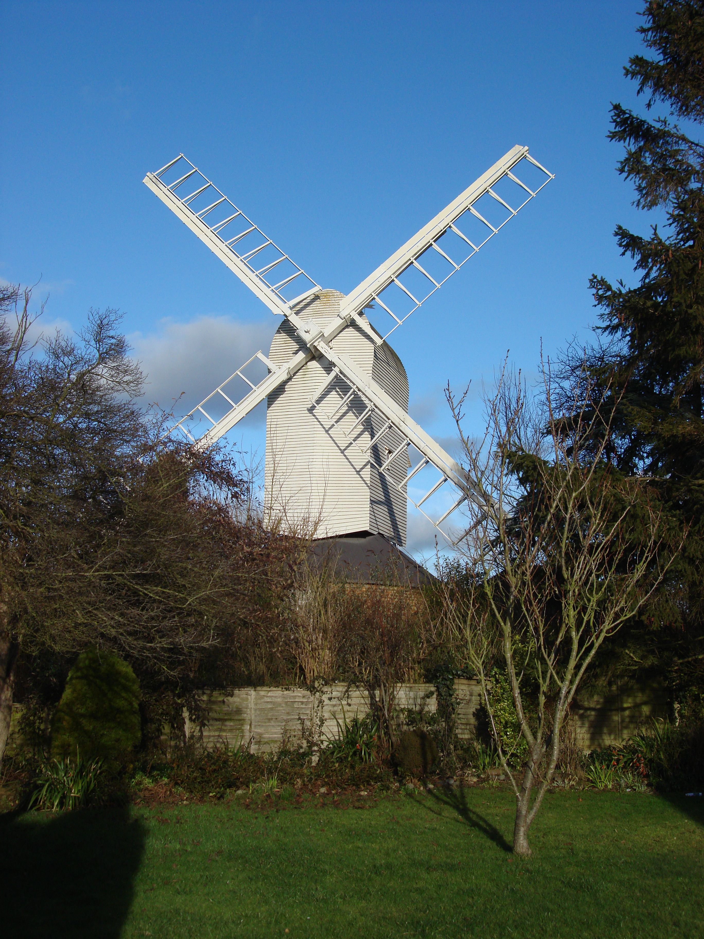 Finchingfield post Windmill can be traced back to 1756. It has four spring sails, one pair of millstones and a tailpole. It is open to the public on some summer days